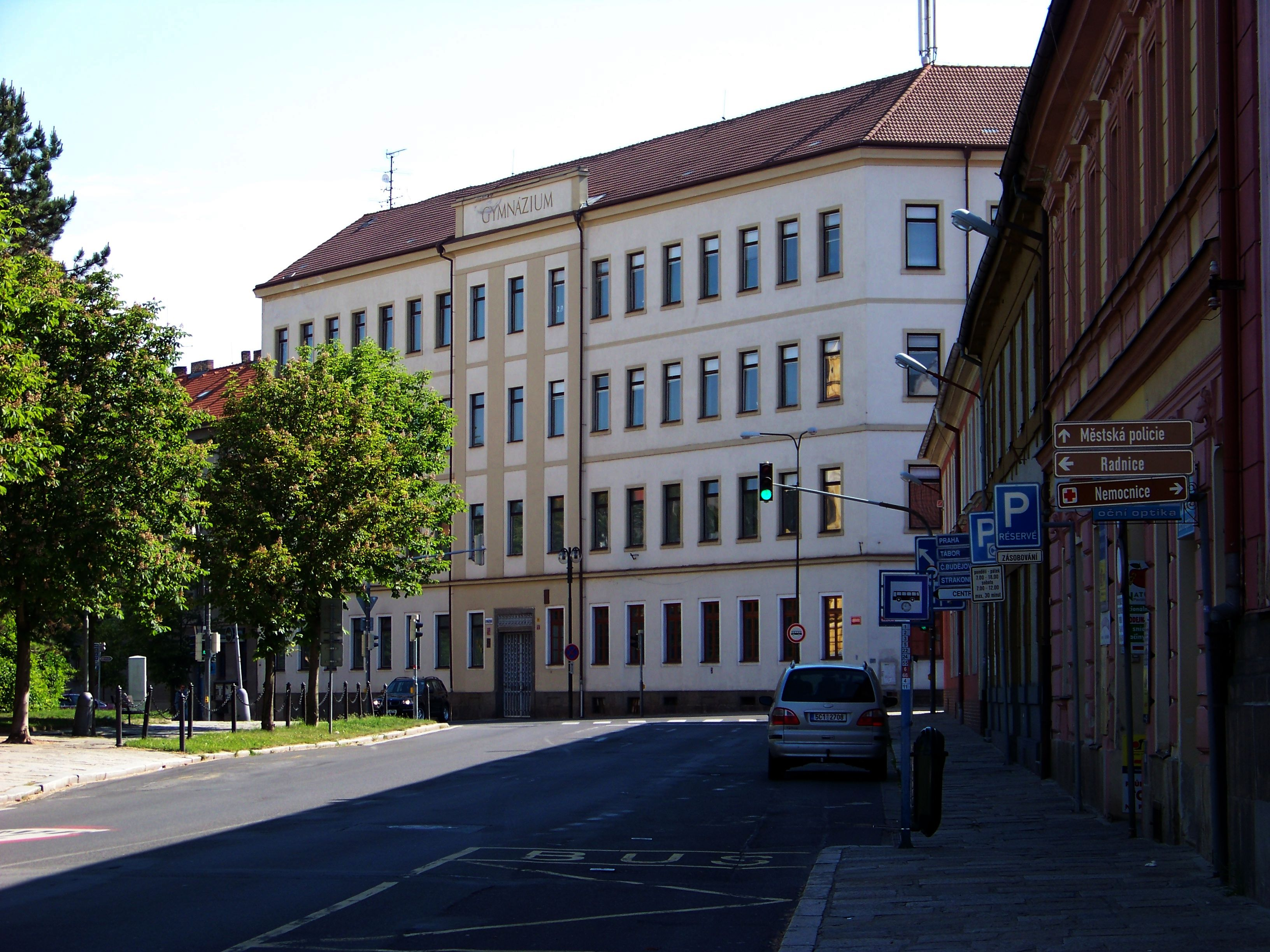 Písek-Budějovické Předměstí, Písek District, South Bohemian Region, the Czech Republic. Budovcova and Komenského street, a gymnasium (school).